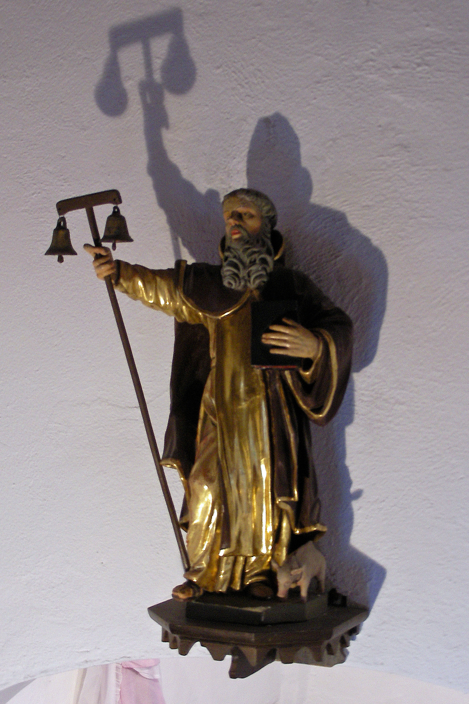 St. Antonius (St. Anthony) ringing the Chapel Bells, Bisholder, Germany